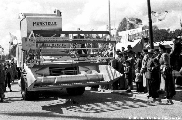 From the Örebro fair 1947